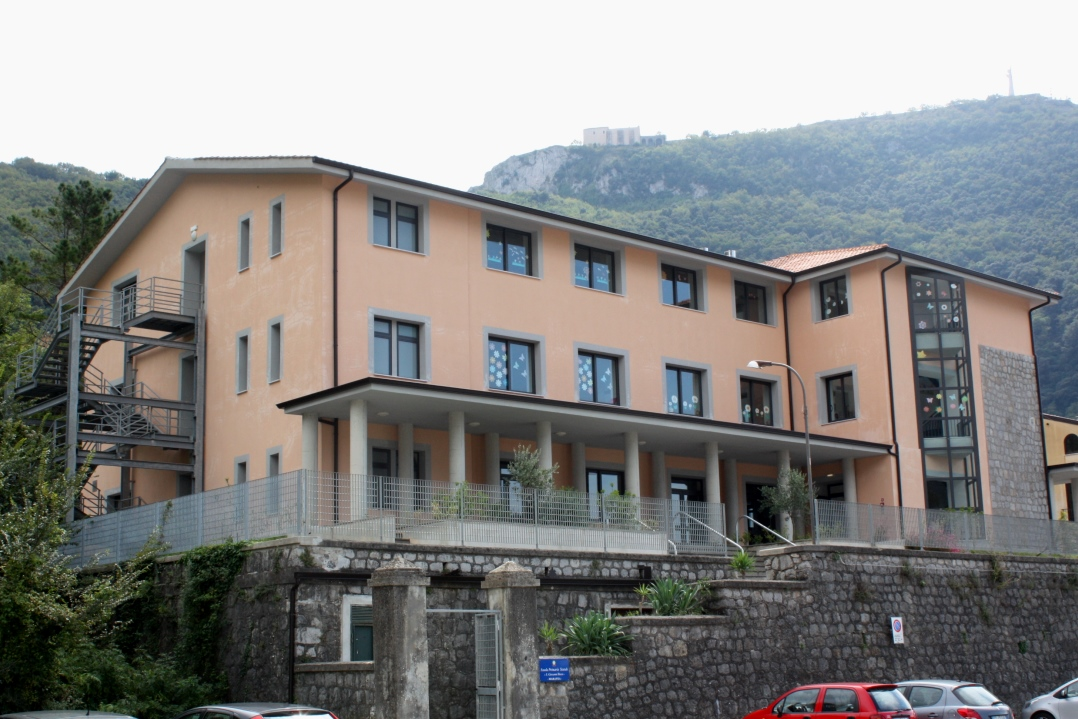 Maratea elementary school.